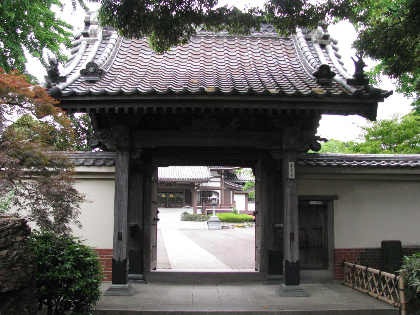 Hongakuji is a temple, Located in Kanagawa-ku, Yokohama, Japan. Old U.S. Consulate (1859-1862).